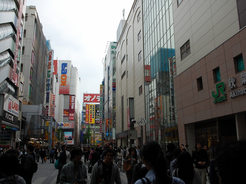 Akihabara Sta. Denkigai Gate, Tokyo, Japan